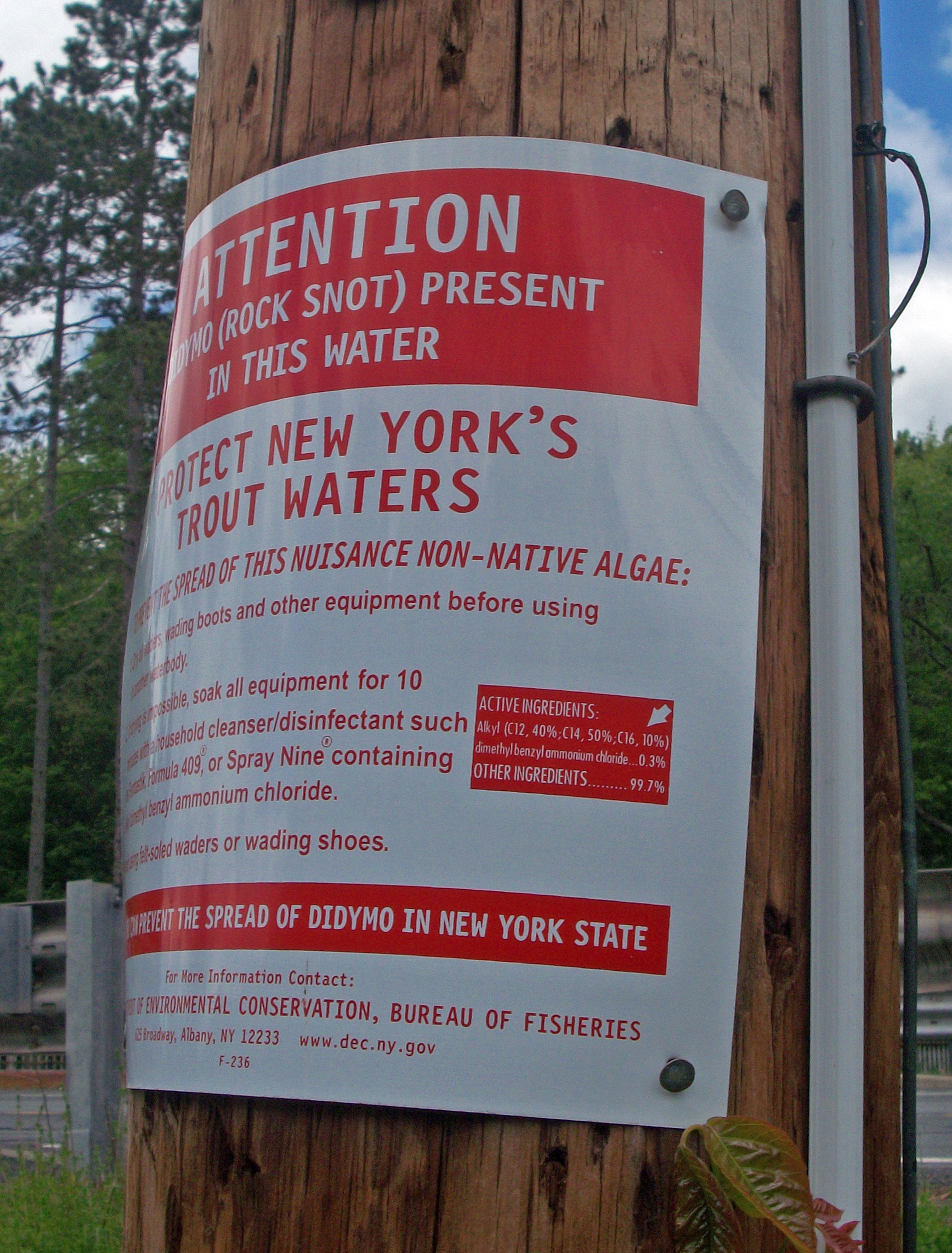 Sign aside Esopus Creek at Shandaken Tunnel south portal along NY 28 in Shandaken, NY, USA, warning fishermen about the danger of rock not contamination